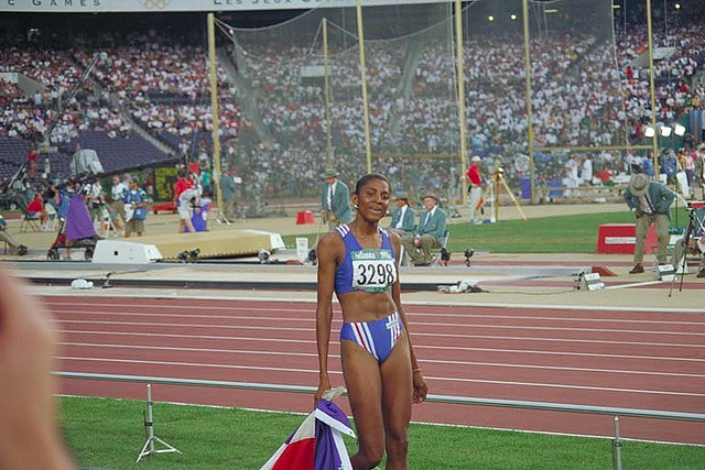 Marie-José Perec having taken gold in the 400m in a new Olympic record time of 48.25 seconds.